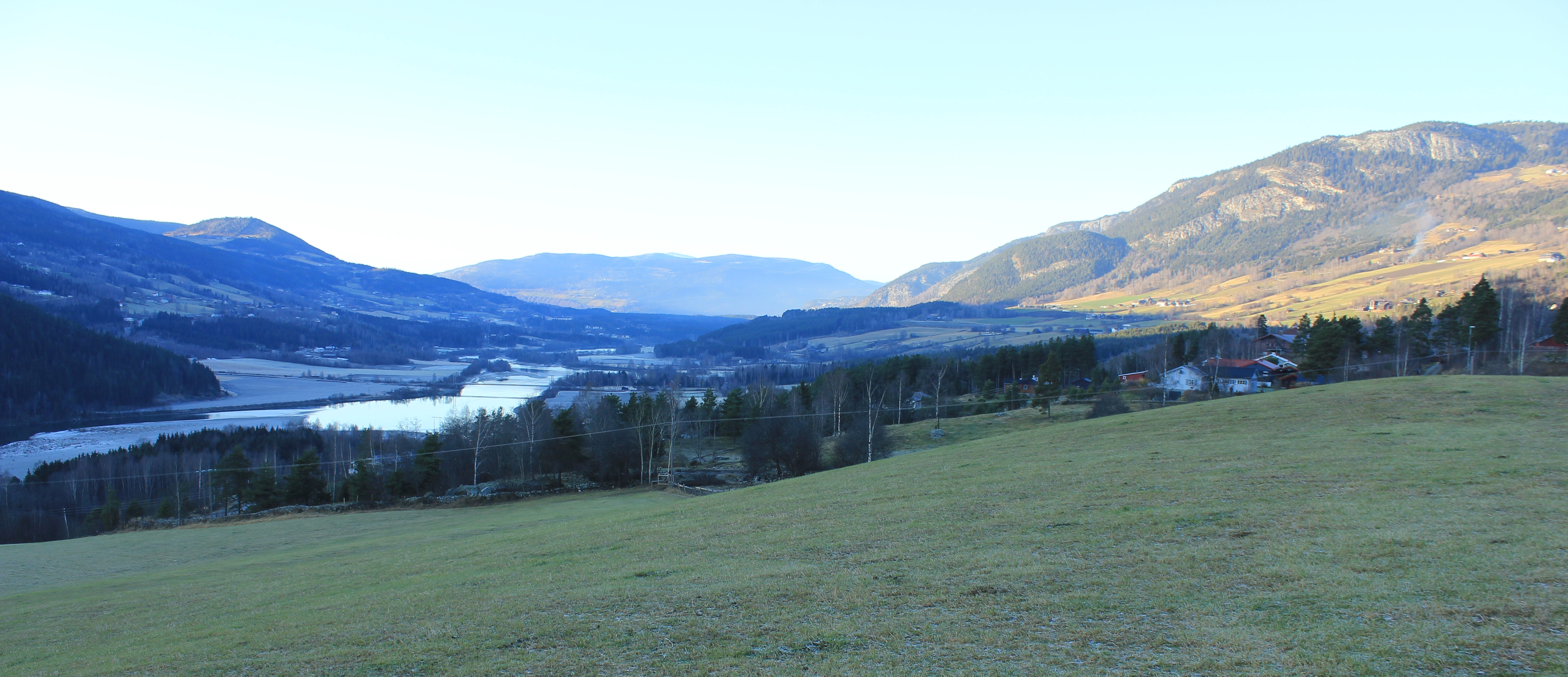 Gudbrandsdalen seen just North of Dale Gudbrands Gård, Oppland, Norway. The river is Gudbrandsdalslågen.